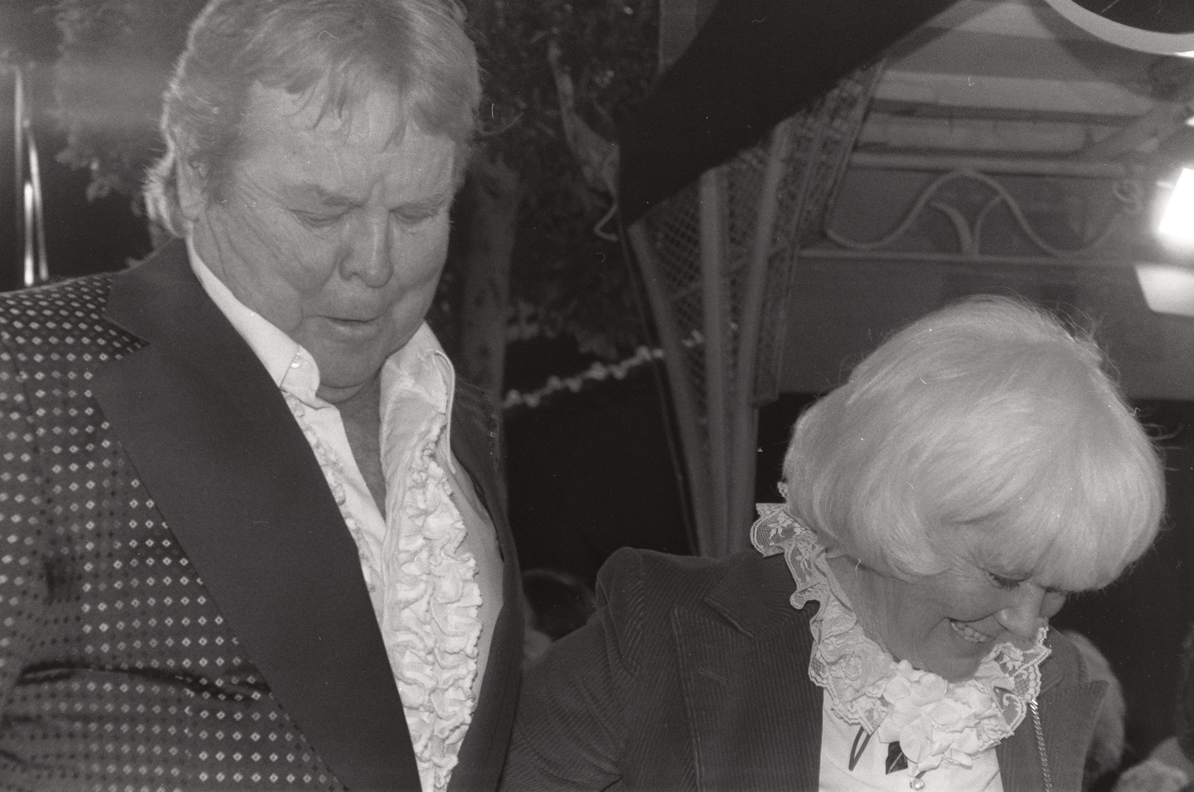 Arthur Lake and Penny Singleton starred in the old BLONDIE movies. Penny was also the voice of many cartoon characters. Photo taken at the premiere aof the movie SEEMS LIKE OLD TIMES 12/10/80 - Permission granted to copy, publish or post but please credit "photo by Alan Light" if you can